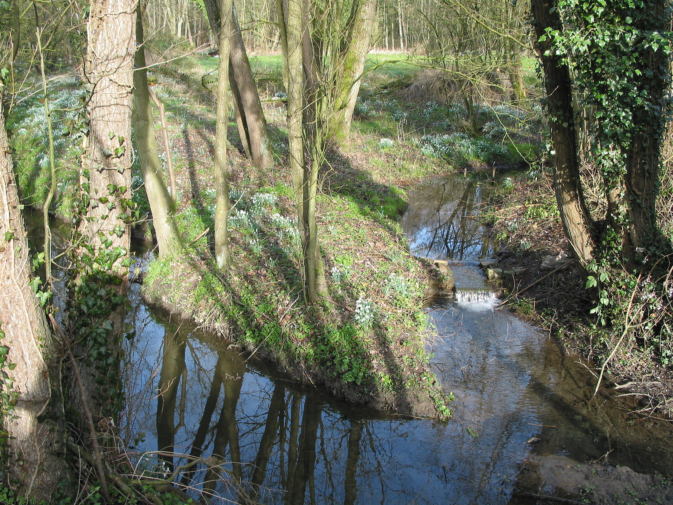 Casteau (Belgium), the Obrecheuil river next the watercress beds.